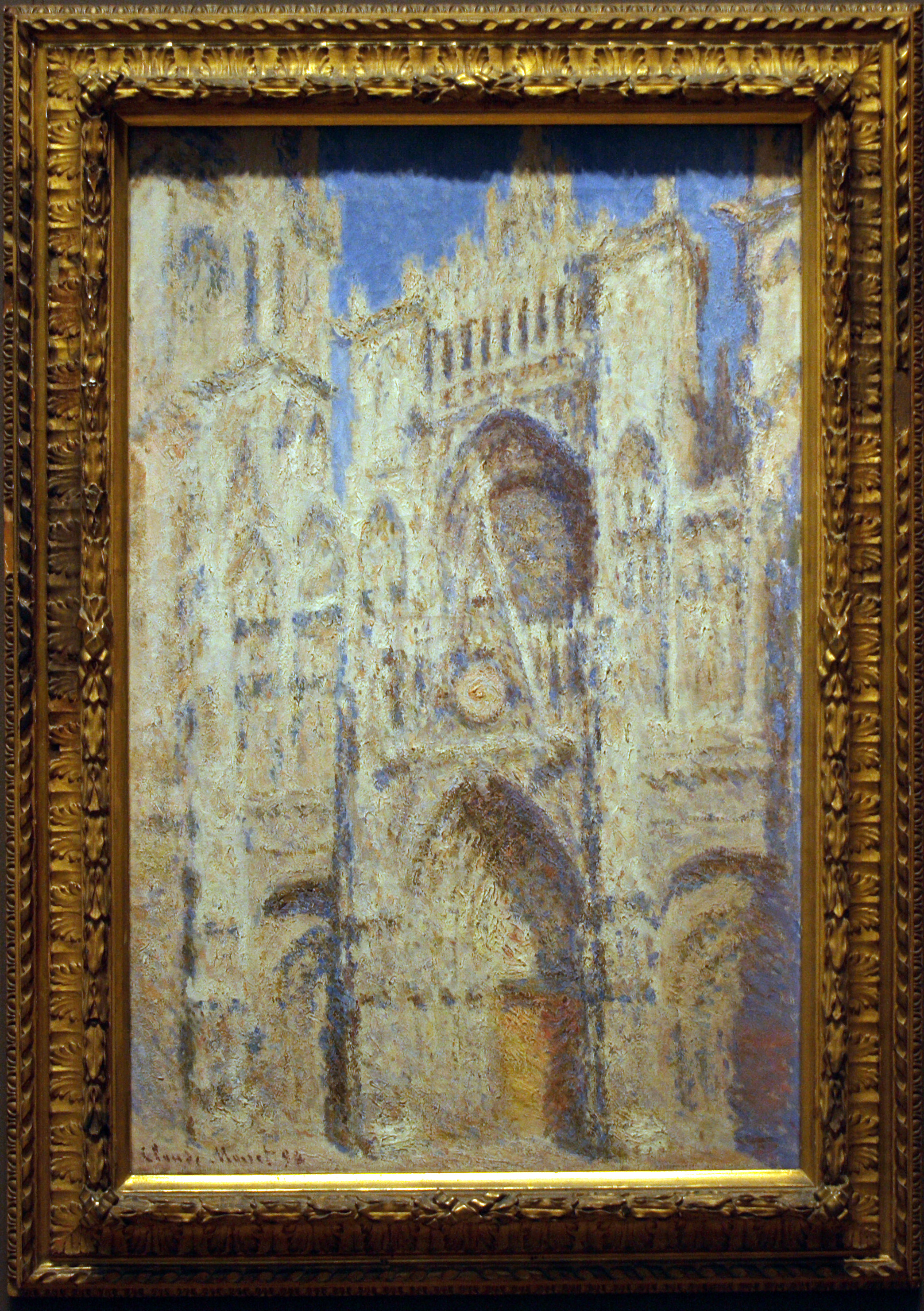 Painting of Monet in the MET, NY